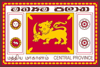 Central Province Flag